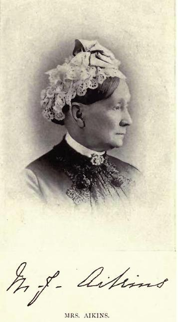 Mrs Mary Jame Aikins, wife of James Cox Aikins by Mrs Carr